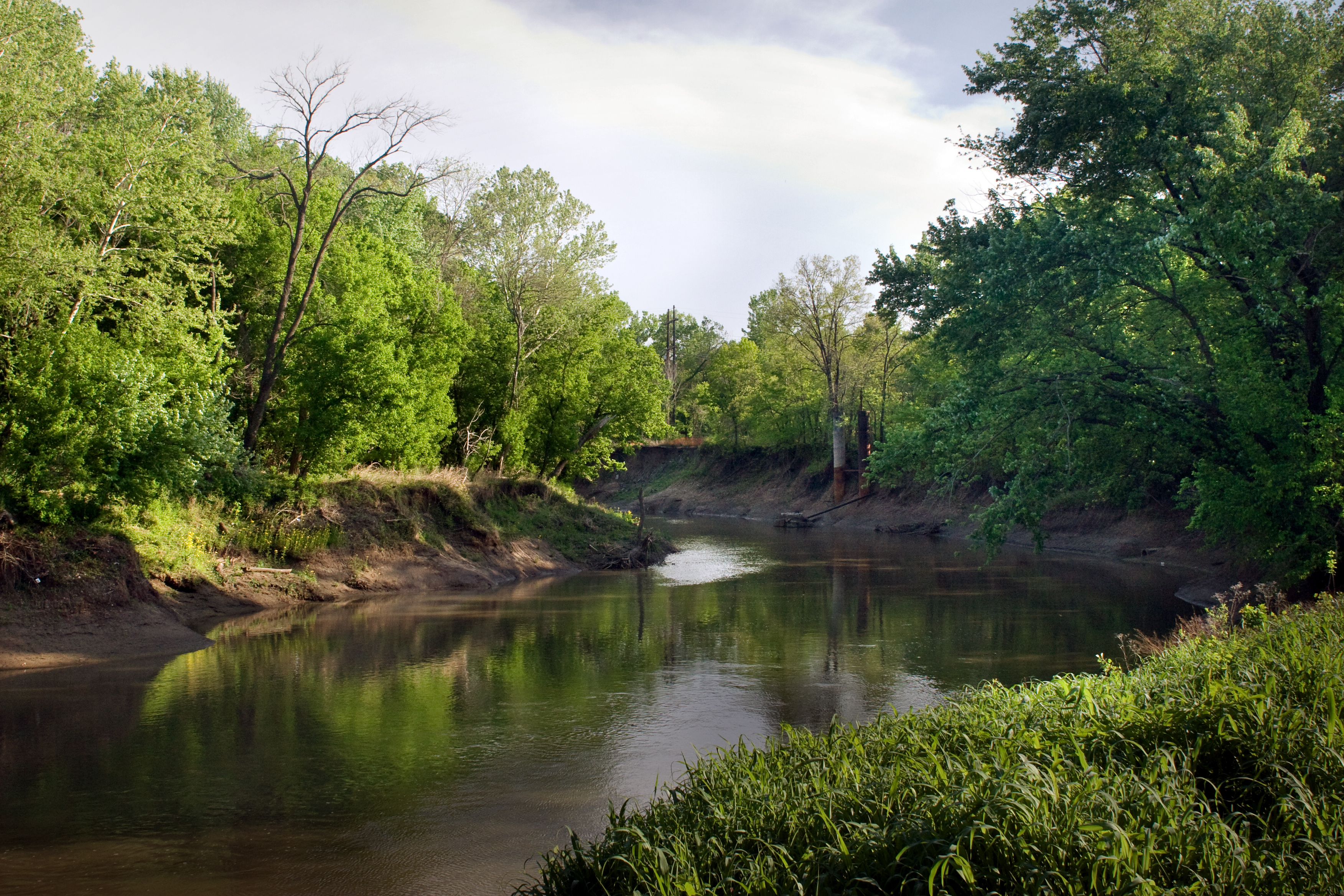 The Caney River, taken facing south near the Frank Phillips Rd. overpass. Taken in Bartlesville, Oklahoma